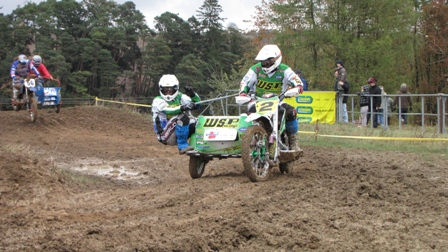 Marcel Willemsen & Bruno Kaelin (No 2) at the final round of the German sidecarcross championship in Warching, 18 October 2009, riding a WSP-Zabel